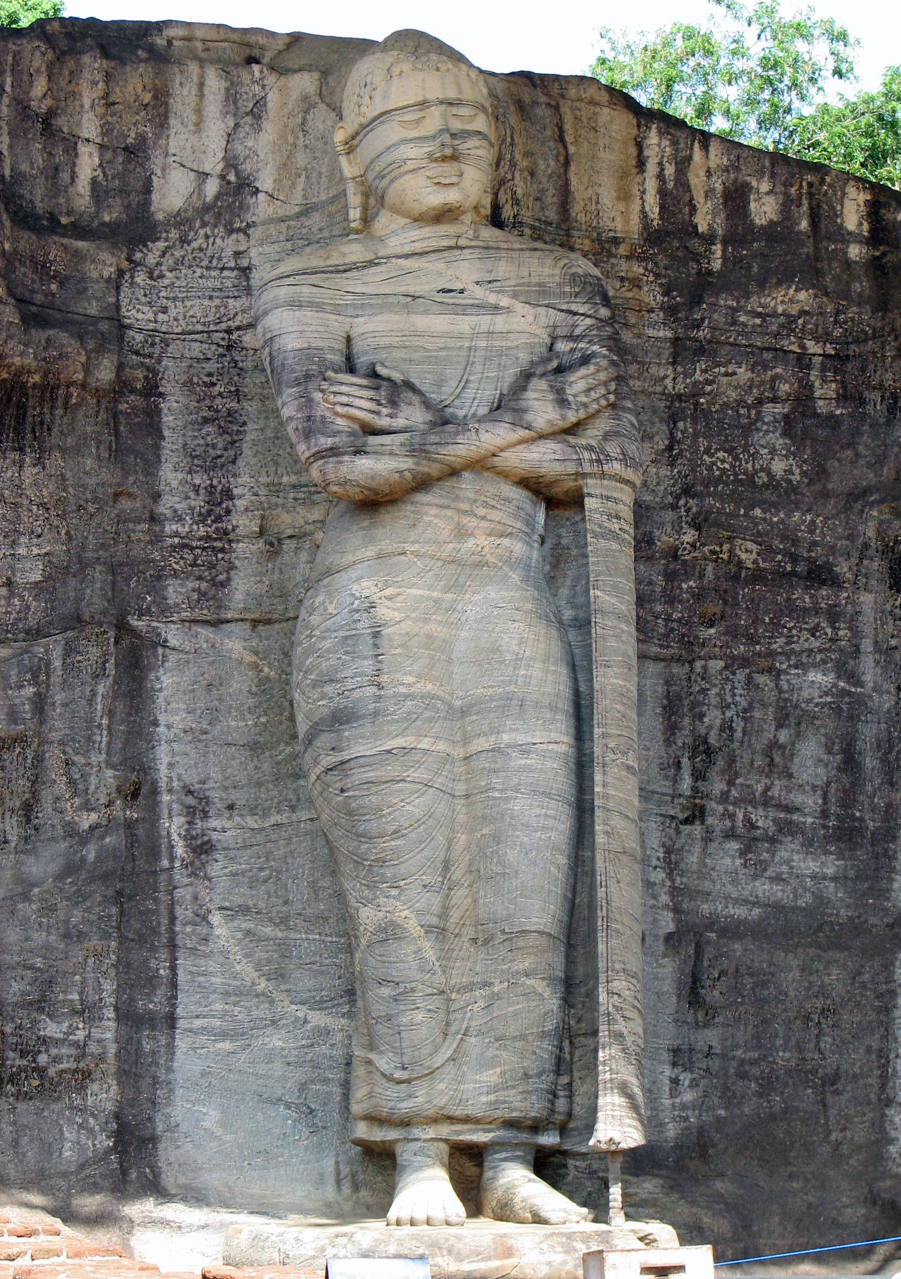 Standing Buddha, Gal Viharaya, Polonnaruwa, Sri Lanka